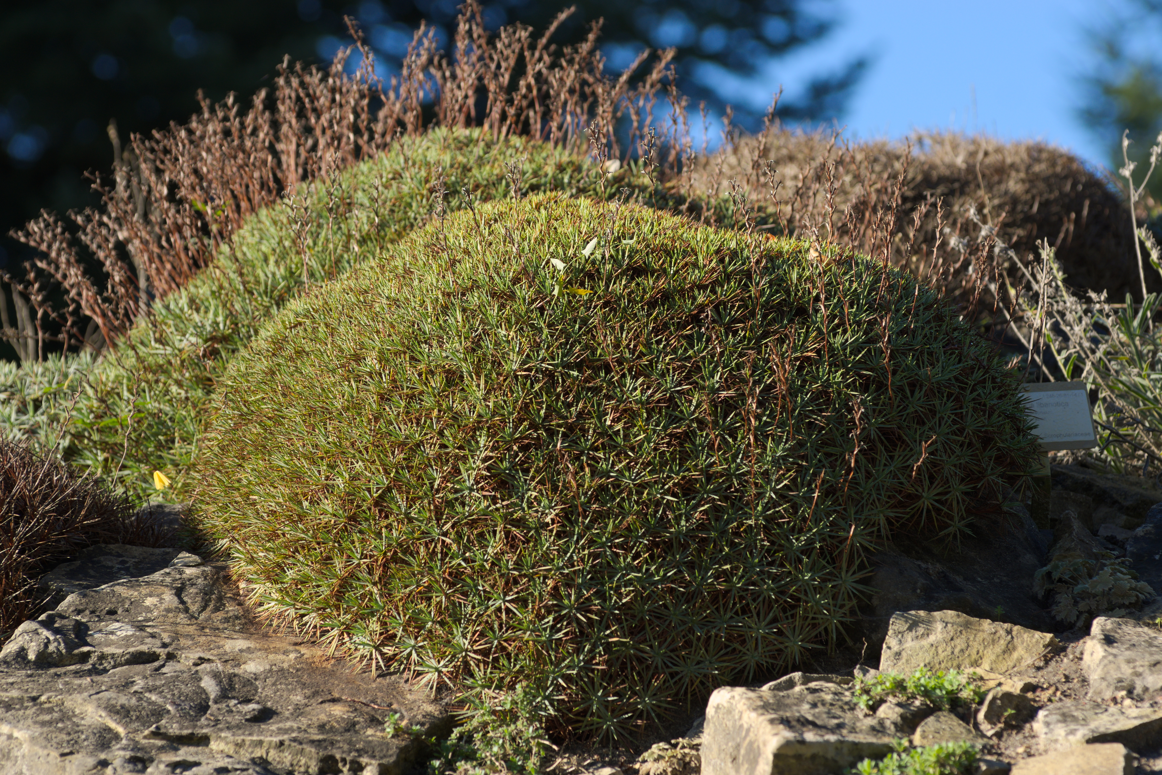 Acantholimon acerosum in the Botanical Gardens of Berlin